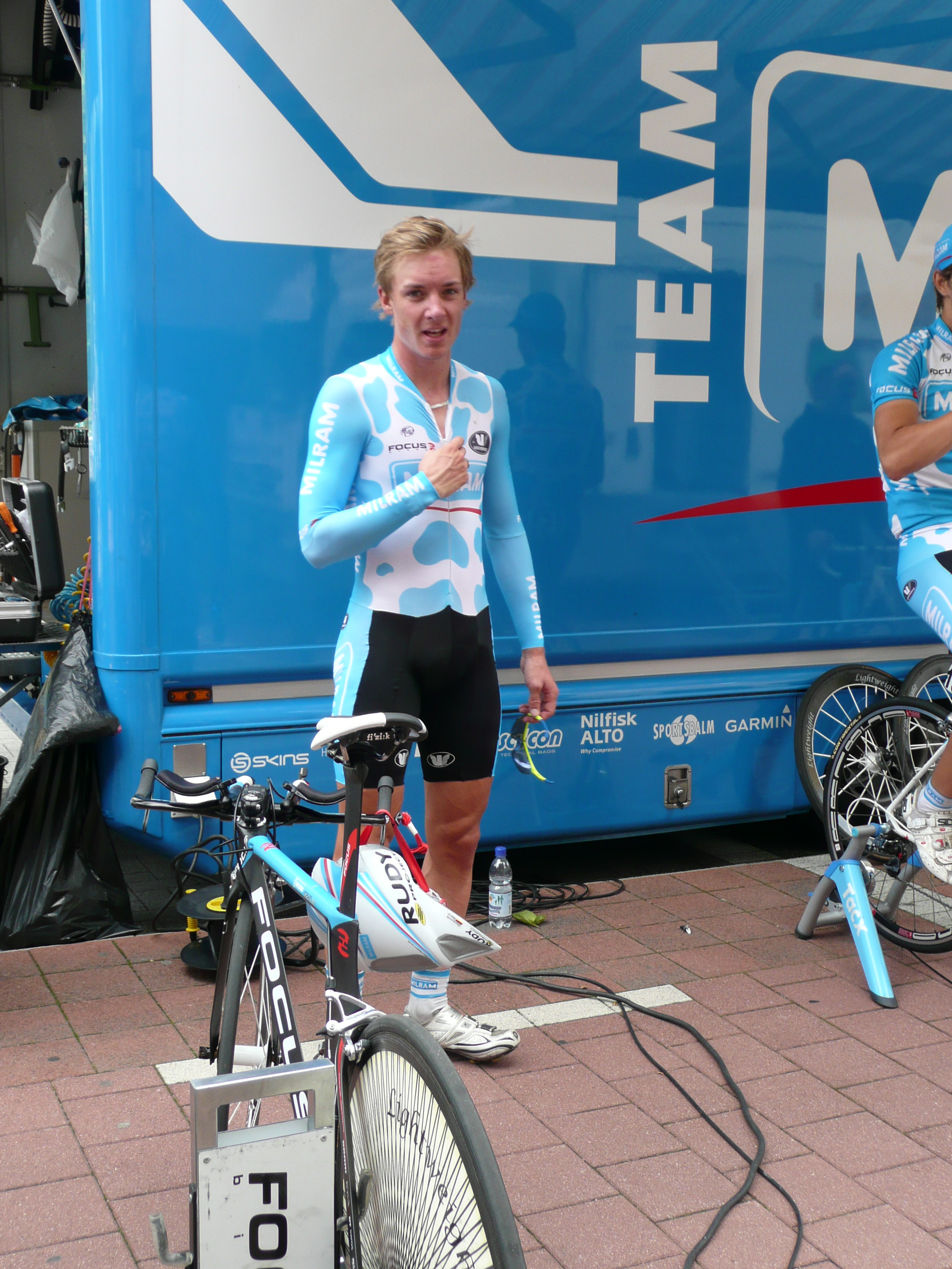 Dominik Nerz during the ENECO-tour 2010